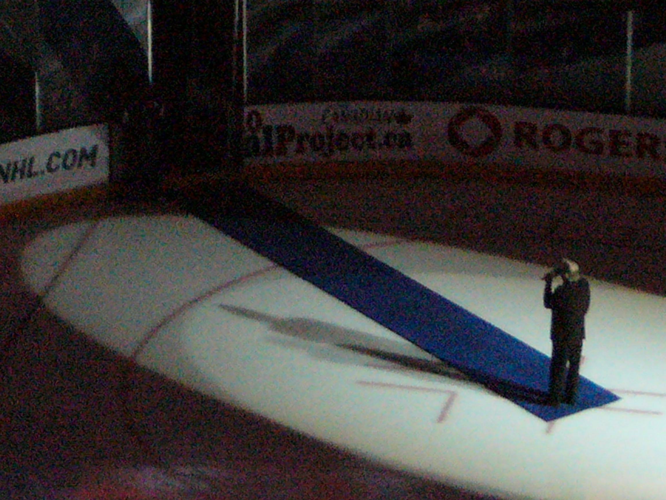 Taken by me in toronto.